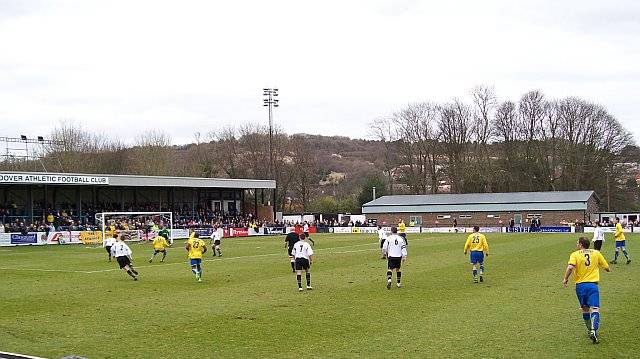 Dover Athletic F.C. playing Staines Town F.C. in March 2009. Photo by myself